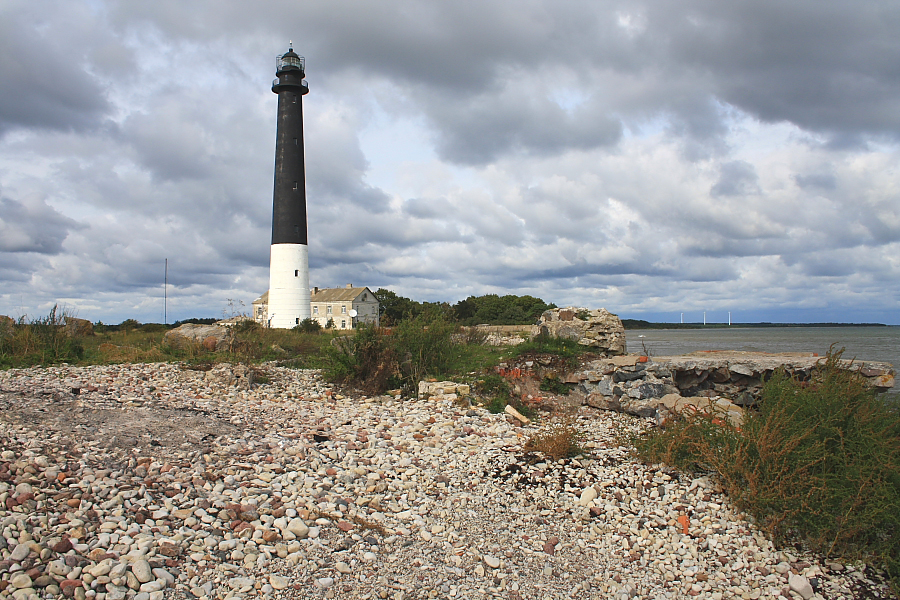 Sõrve lighthouse on Saaremaa island in Estonia